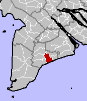 Hoa Binh District, Bac Lieu Province, Vietnam.